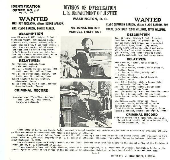 US Department of Justice, Division of Investigation identification order for Bonnie Parker and Clyde Barrow.